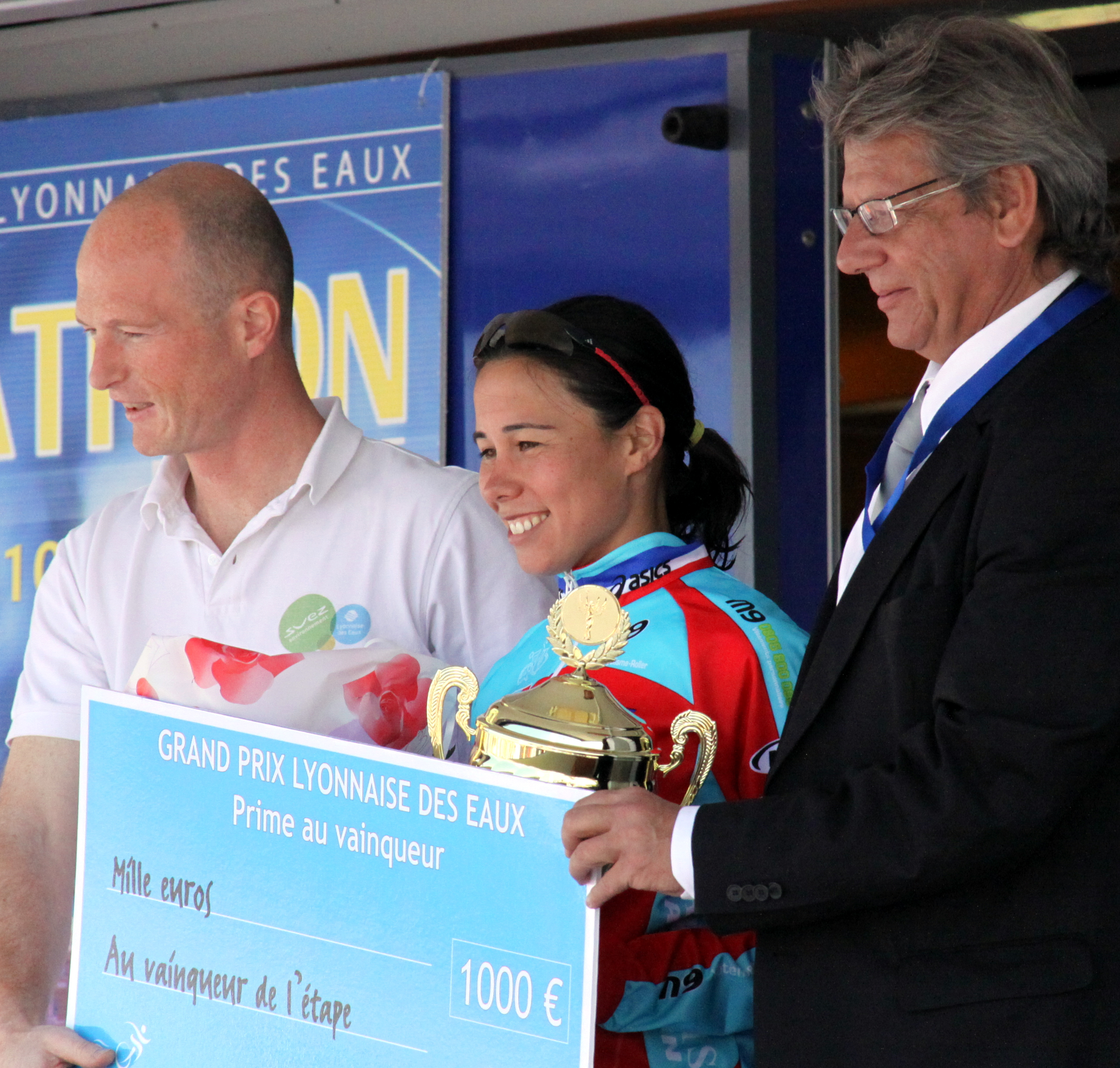 Andrea Hewitt winning the Triathlon de Dunkerque 2010 (Grand Prix de Triathlon Lyonnaise des Eaux)